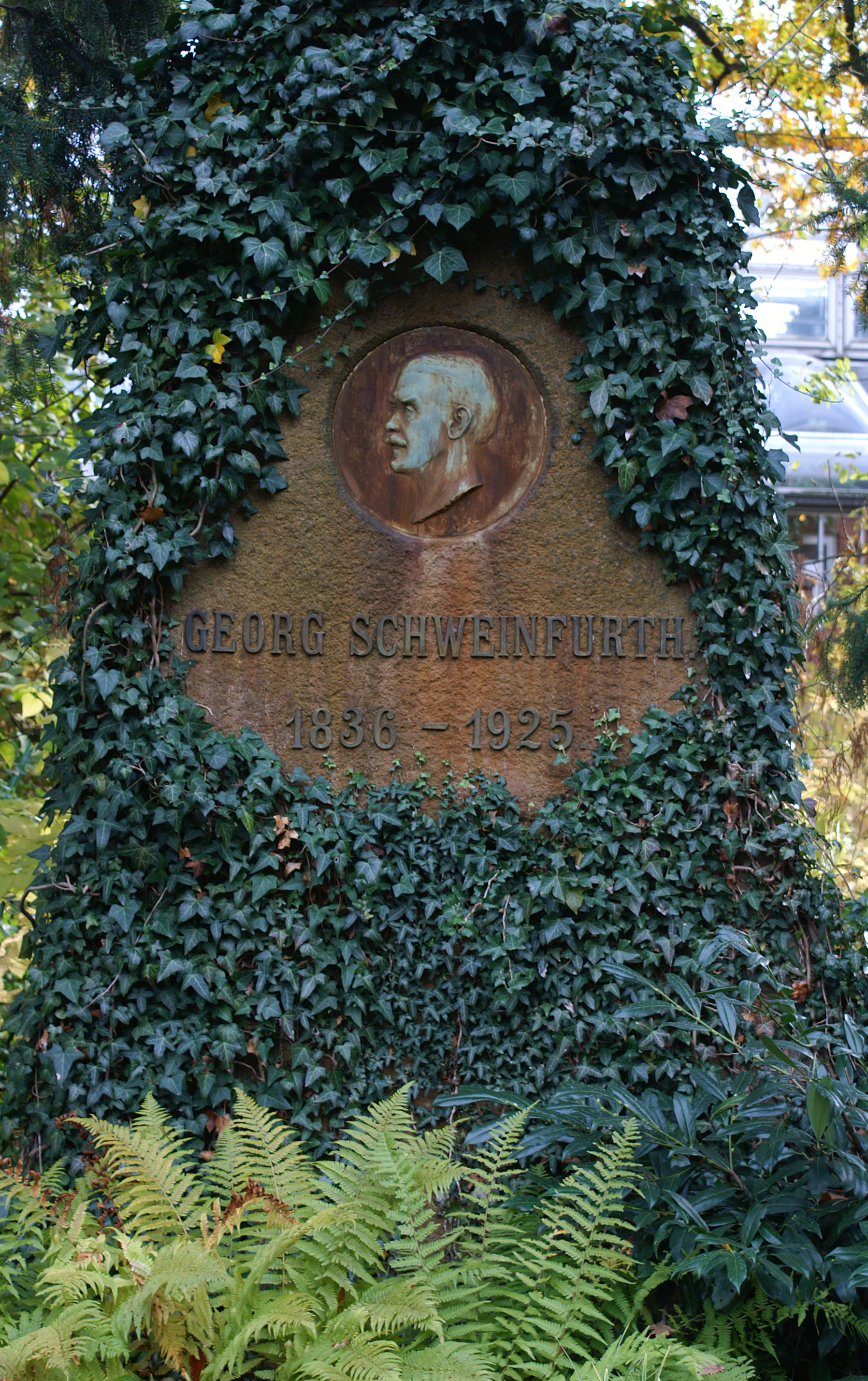 Tombstone of Georg August Schweinfurth in the Berlin Botanical Gardens.